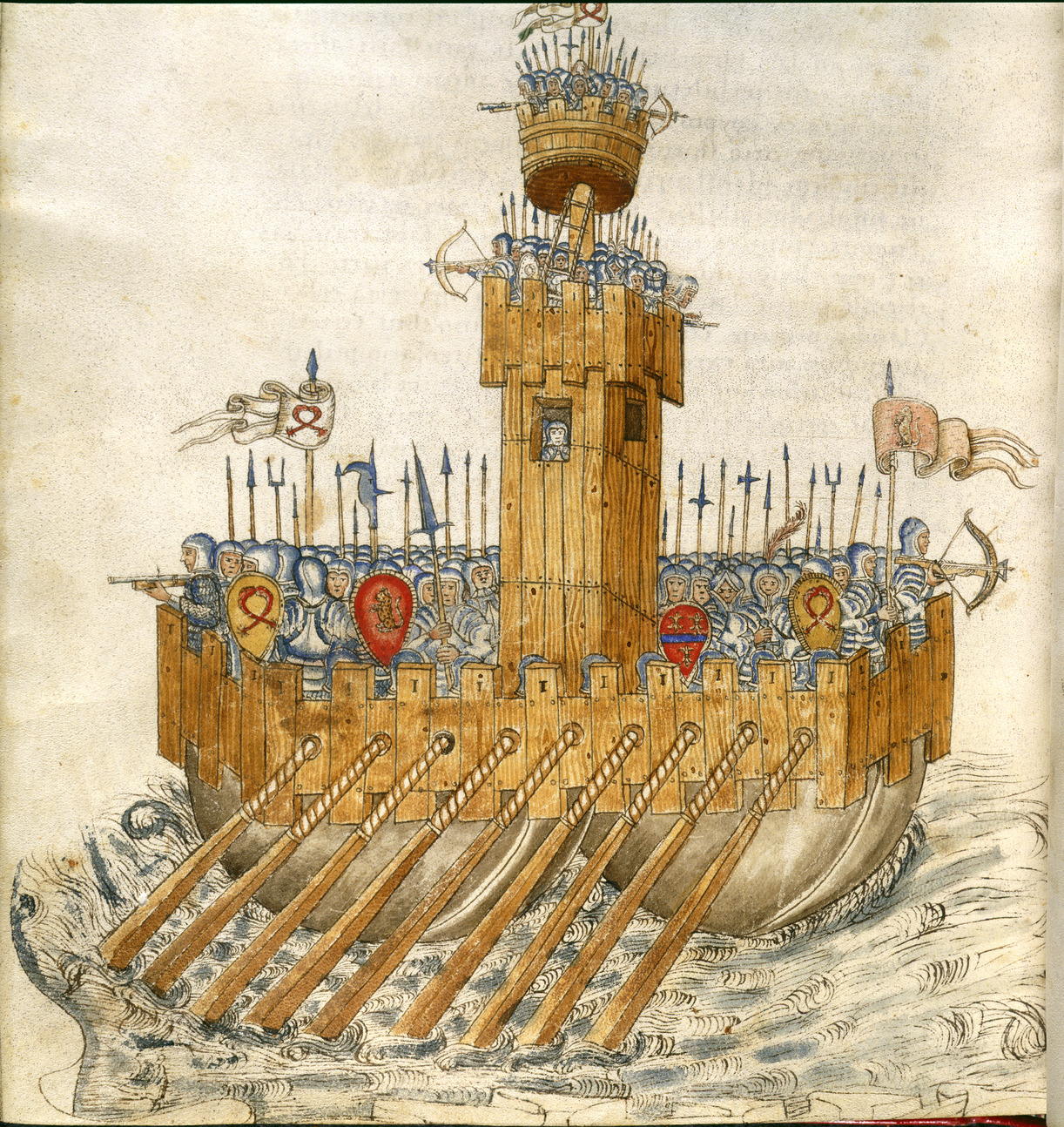 Ship with armed soldiers (Whole folio) Drawing of a war ship, with soldiers armed with bows and arrows, shields and spears